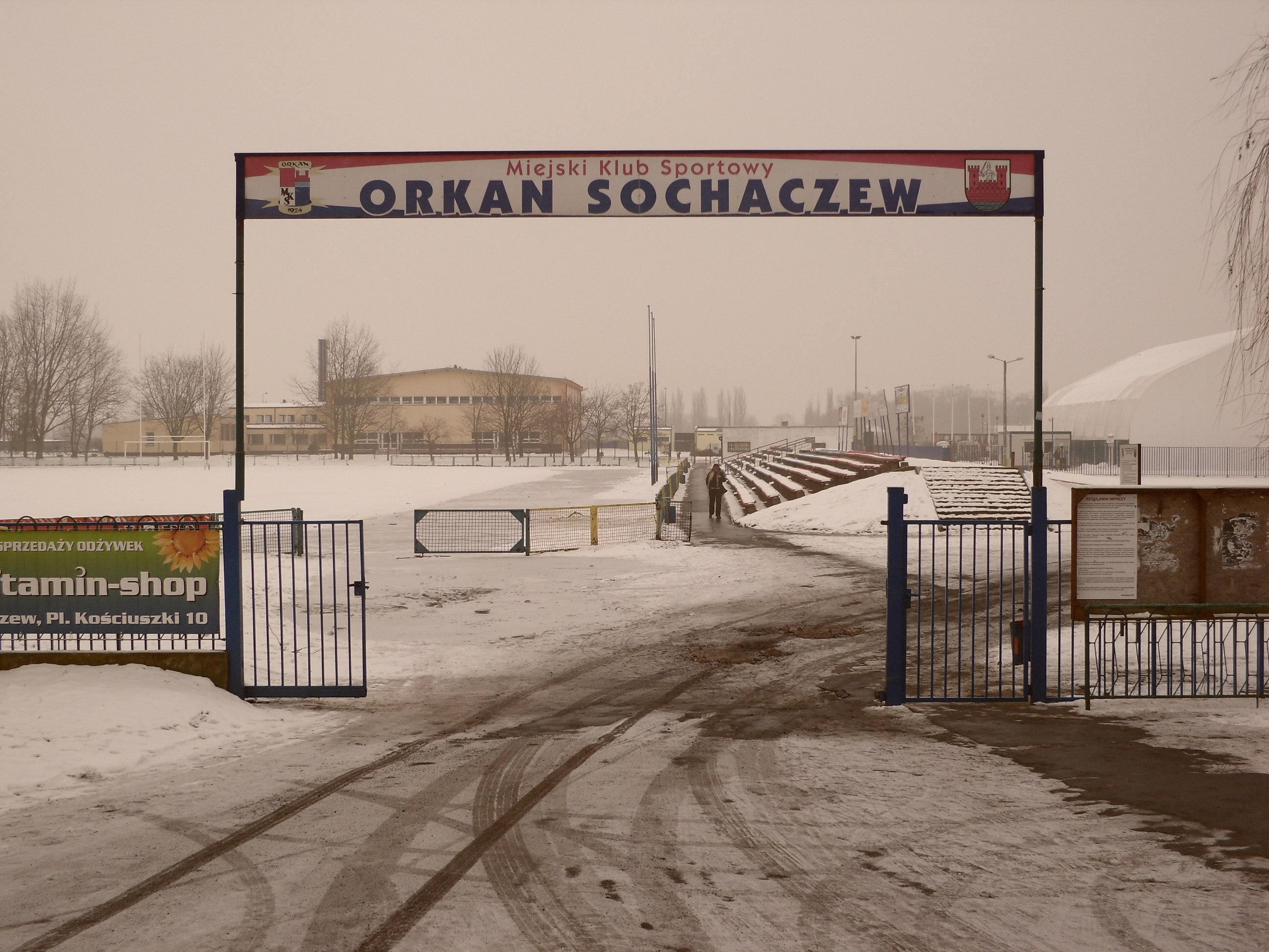 Sochaczew - Orkan sports club